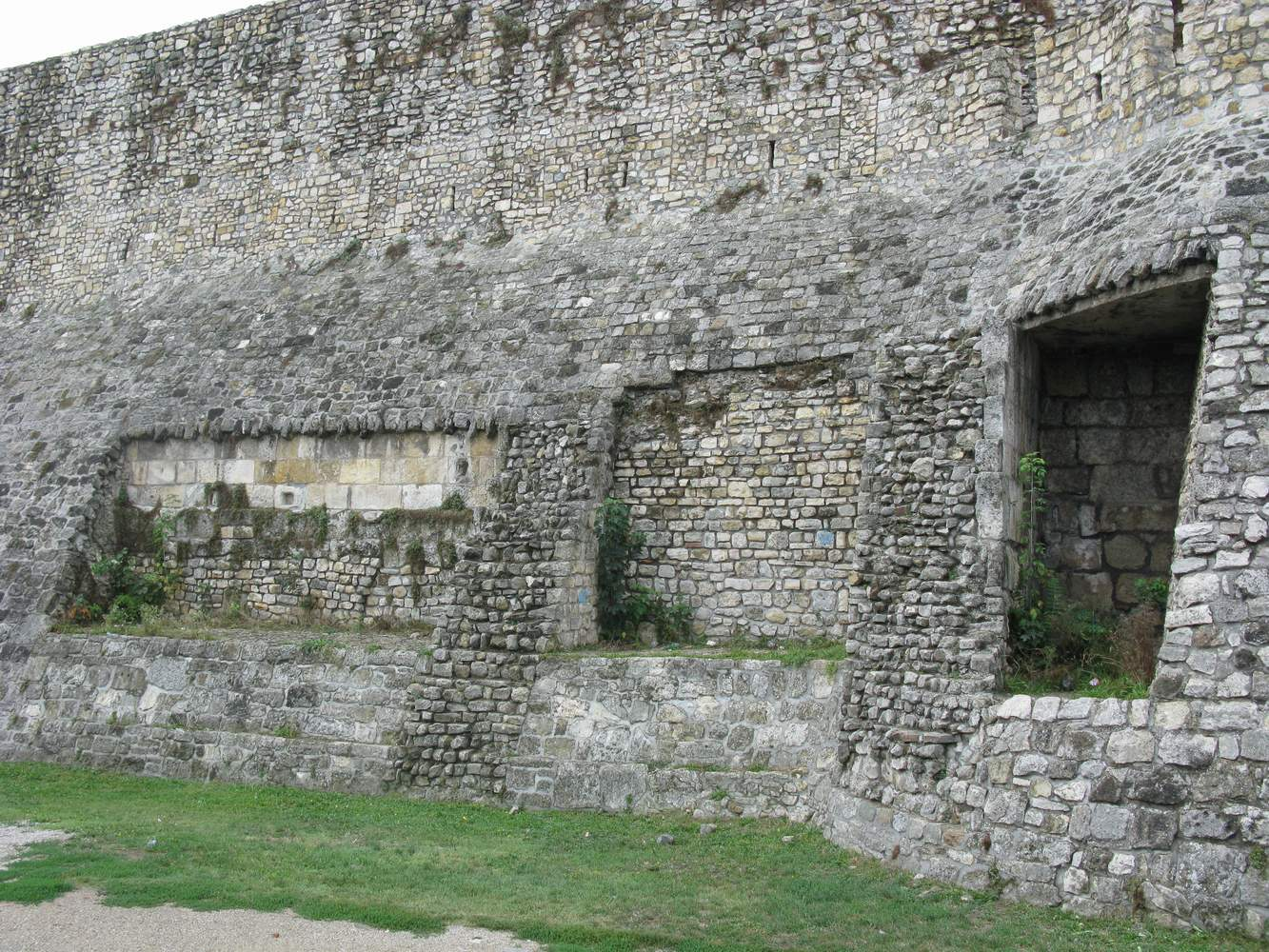 Remains (wall on the sides and tower in the middle) of old roman castrum of Singidunum